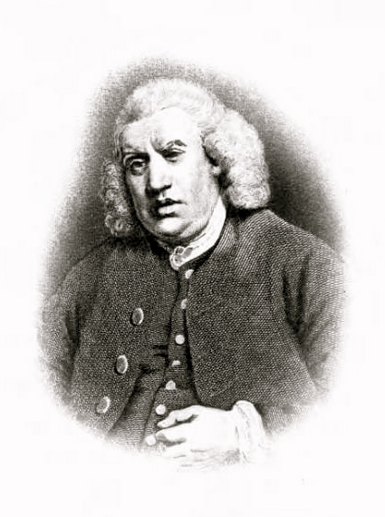 This is the frontispiece displayed on page 10 in Footsteps of Dr. Johnson by George Birkbeck Norman Hill, 1835-1903.